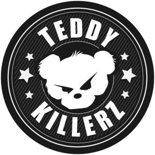 Teddy Killerz band logo